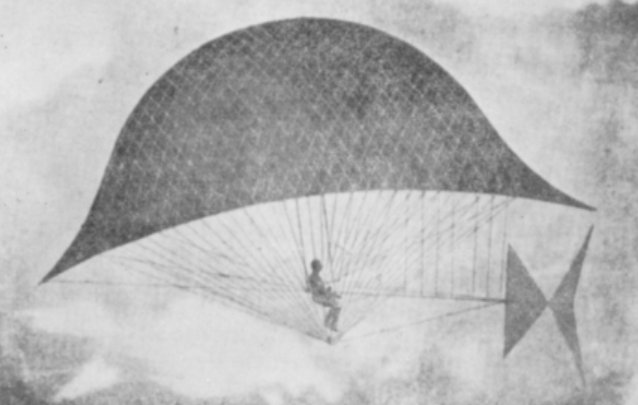 Gas Kite #1 or Aerial Velocipede invented by Carl E. Myers. Illustrating "Dirigible Balloons with Screw in Front" 1881 - American Magazine of Aeronautics